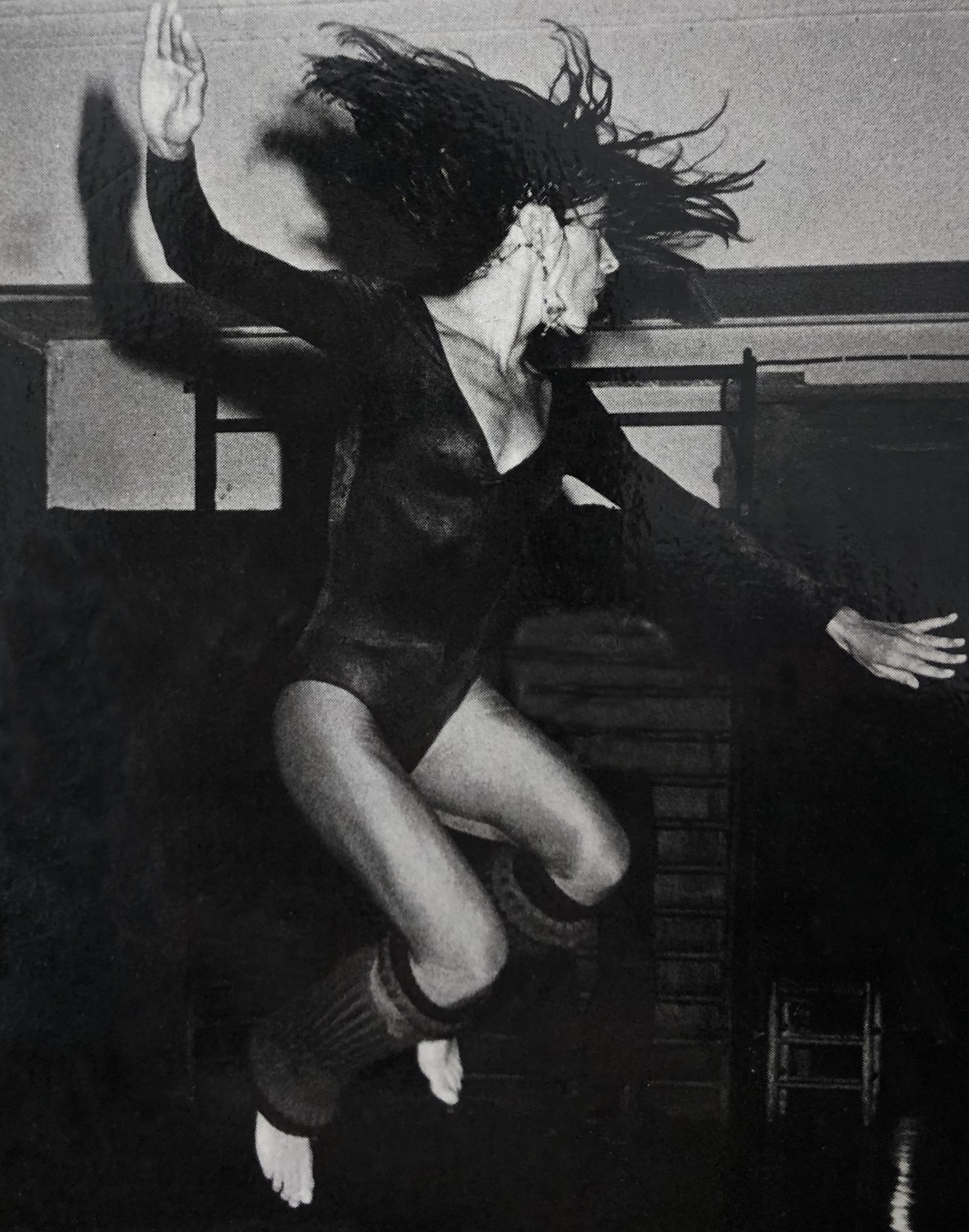 Jeanine qui saute dans les airs pendant sa danse